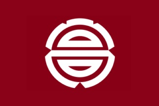 Flag of Takahata Yamagata